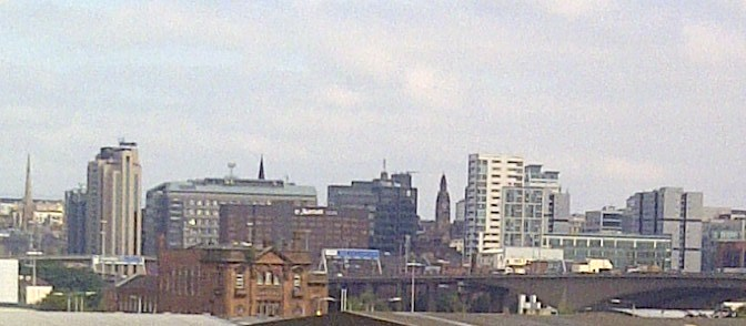 Glasgow Skyline in 2012, Scotland